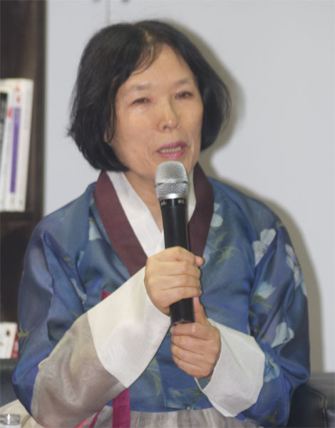 Korean author So Young-en at SIBF 2014